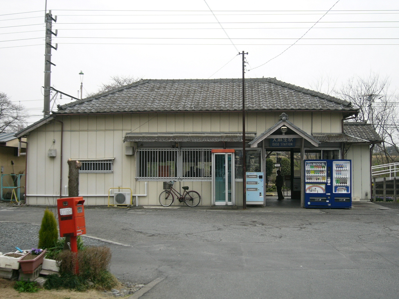 Oaso Station on the Chichibu Main Line in Saitama Prefecture, Japan